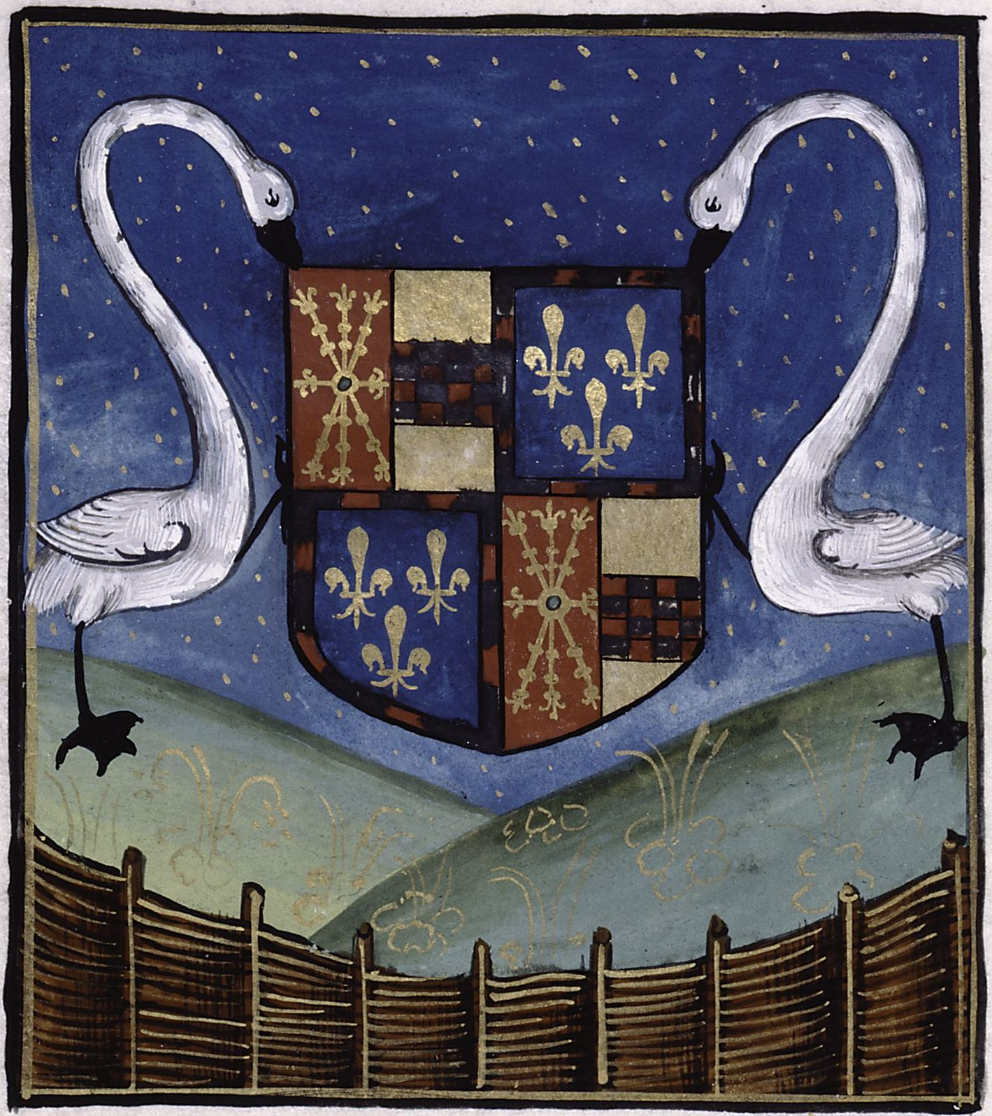 Coat of arms of Engelbert of Cleves, Count of Nevers (1462-1506) (mark of ownership) in a manuscript of De virtutibus et vitiis (New York, New York Public Library, Manuscripts and Archives Division, De Ricci Ms. 059, MS NYPL-122, fol. 7) Description of the manuscript here